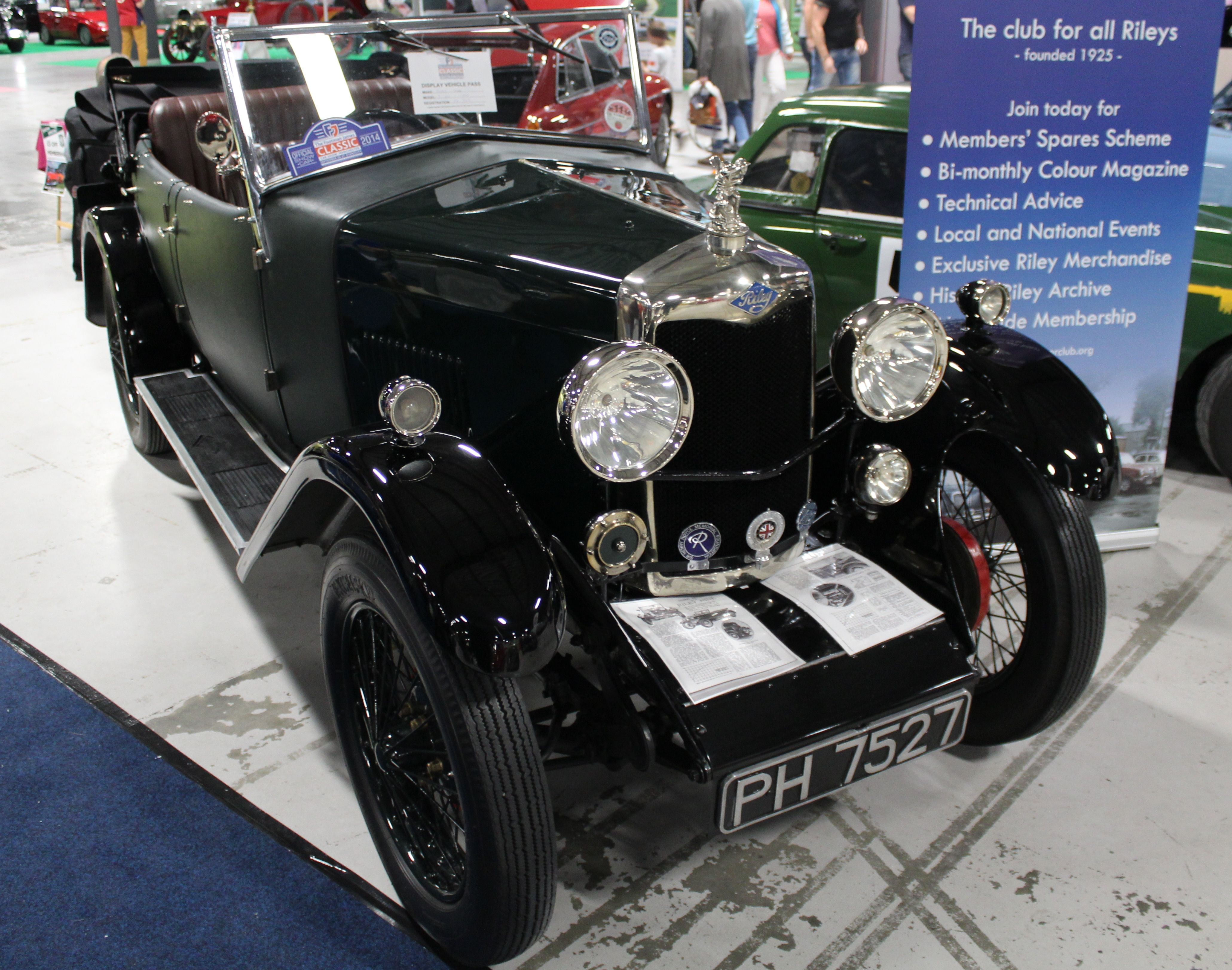 Riley Nine (DVLA) first reg February 1928, 1000 cc